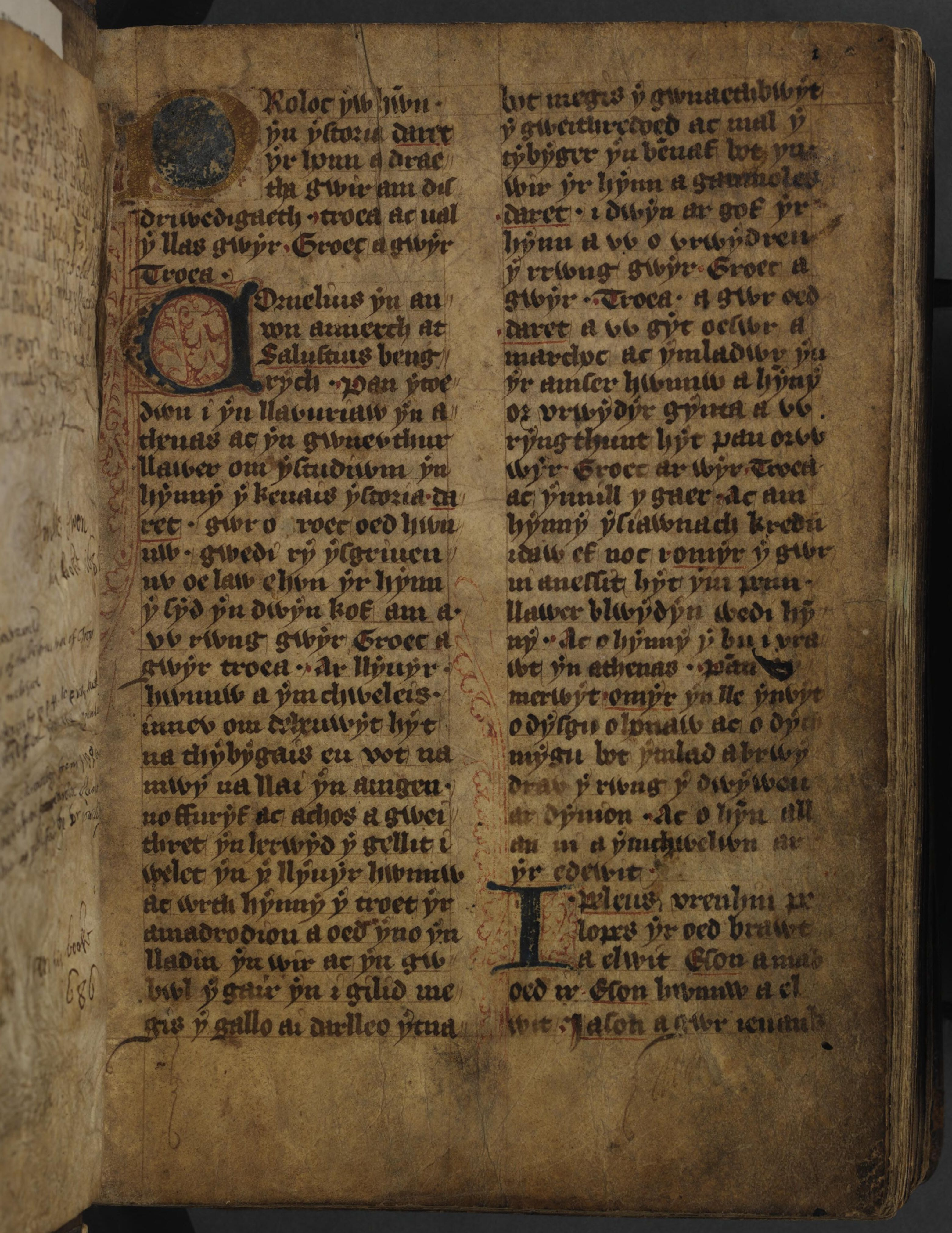 Jump to navigation Jump to search Welsh manuscript written c. 1460